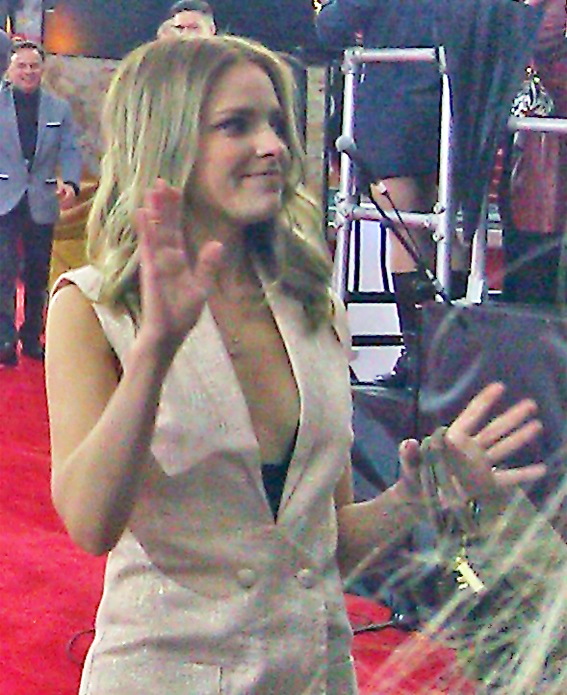 Sarah-Jeanne Labrosse photographed in Montreal, Quebec, Canada at the red-carpet ceremony of the 2015 Gala Artis.